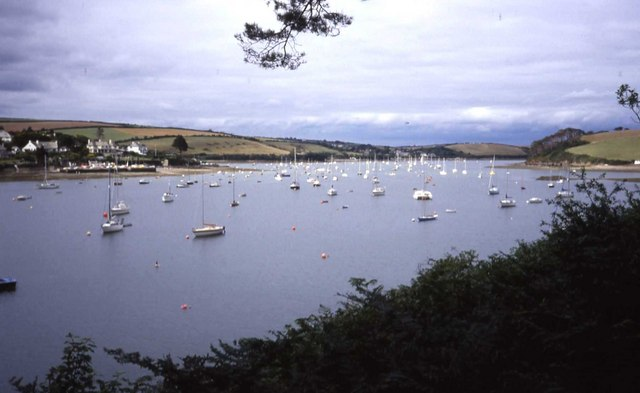 Percuil River St Mawes on the left.